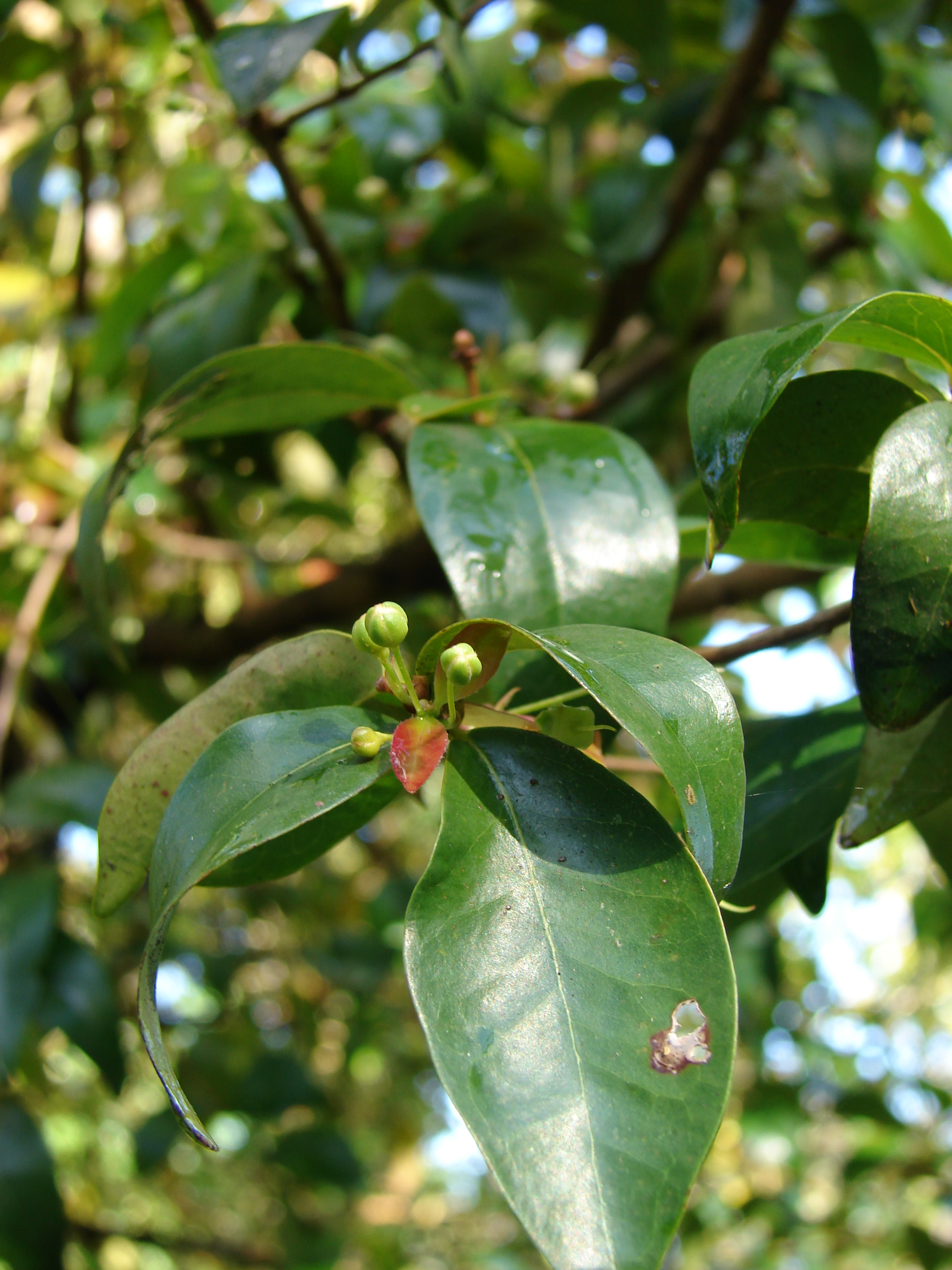 Eugenia uniflora (leaves and flower buds). Location: Maui, Haiku